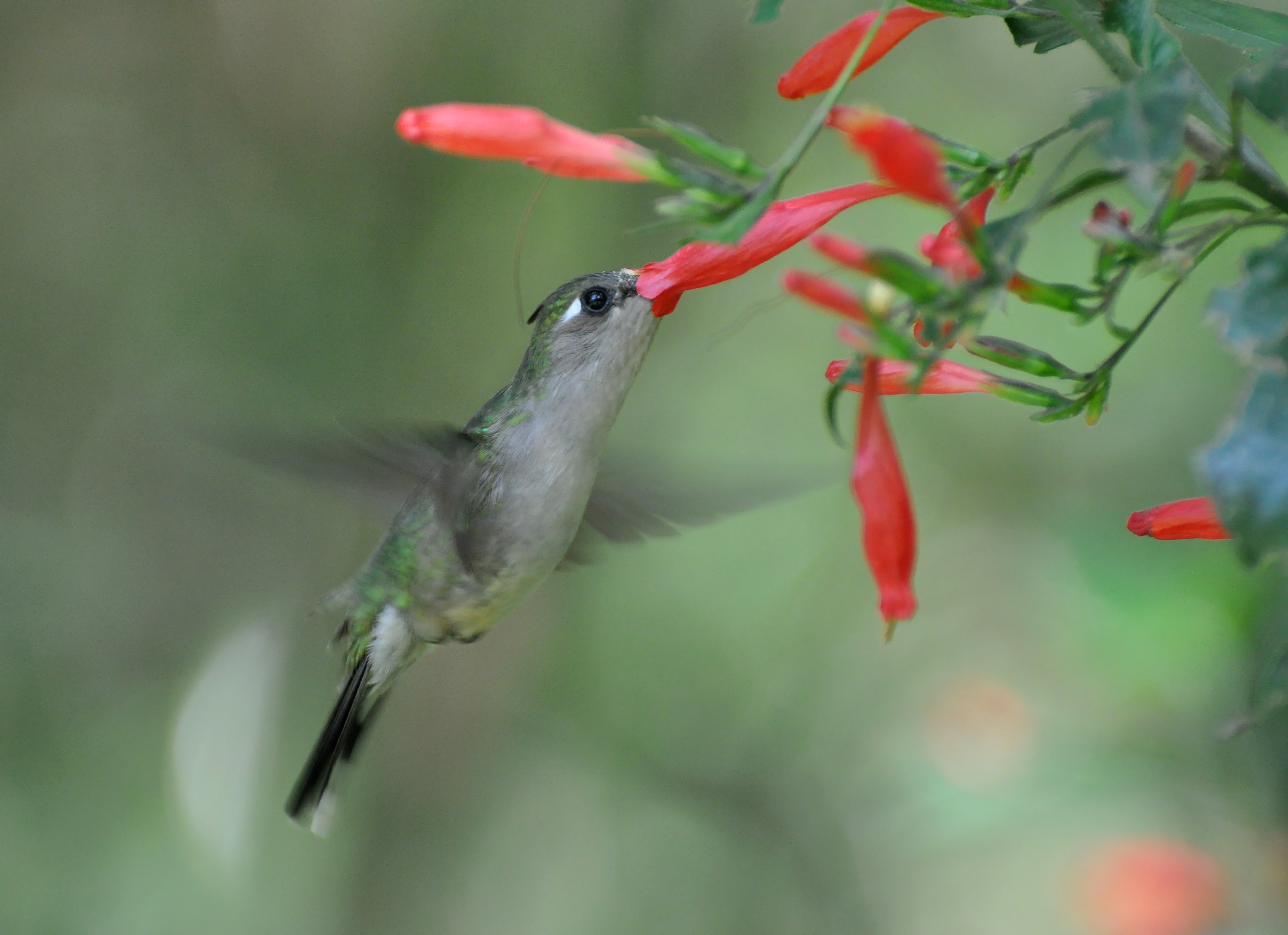 Stephanoxis lalandi subsp. loddigesi female photographed in Rio Grande do Sul, Brazil, in October 2010.